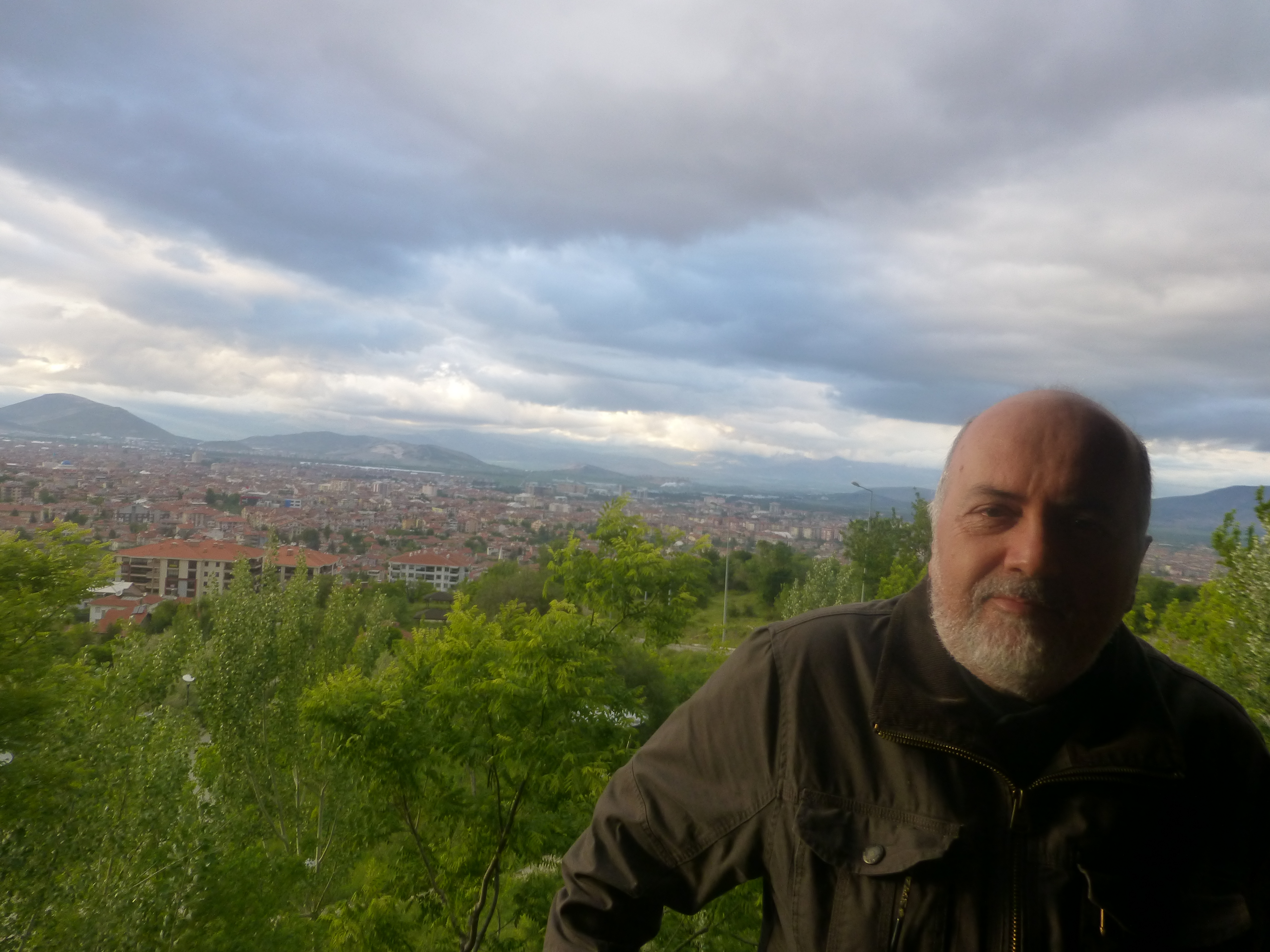 Photo of Hikmet Temel Akarsu